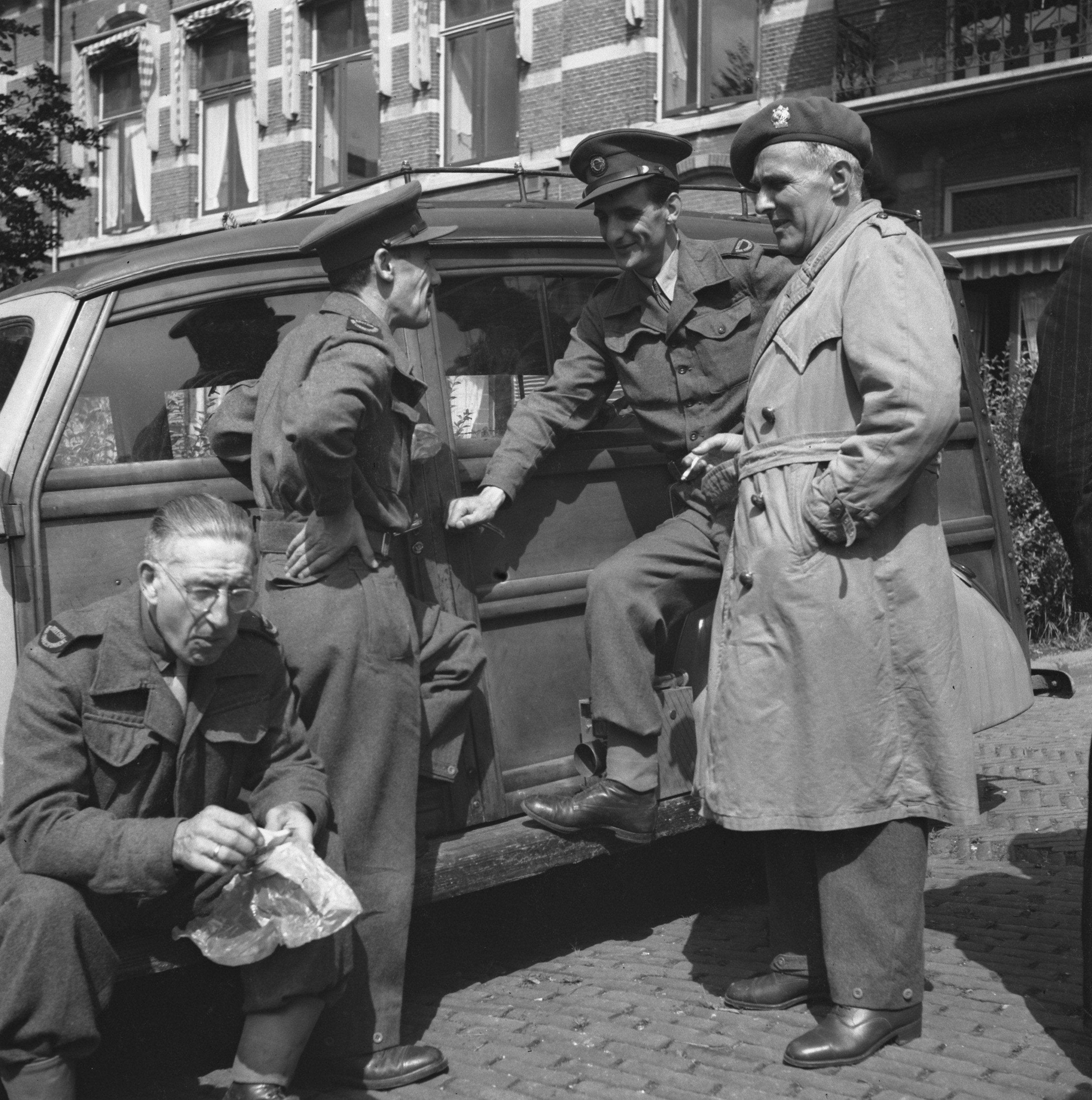 Theirs is the Glory (AKA Men of Arnhem), is a 1946 British war film about the British 1st Airborne Division's involvement in the Battle of Arnhem (17 September to 25 September 1944) during Operation Market Garden in the Second World War. It was the first film to be made about this battle, and the biggest grossing war movie for nearly a decade. The film was directed by Ulsterman Brian Desmond Hurst, who was himself a veteran of the First World War, having survived Gallipoli where he had served with the Royal Irish Rifles. Hurst was an accomplished film director having been mentored by John Ford in Hollywood and directing more than 30 films including Malta Story, Scrooge and Tom Brown's Schooldays. Hurst was also Ireland's most prolific film director of the 20th century. The producer was Leonard Castleton Knight, Head of Gaumont British News.